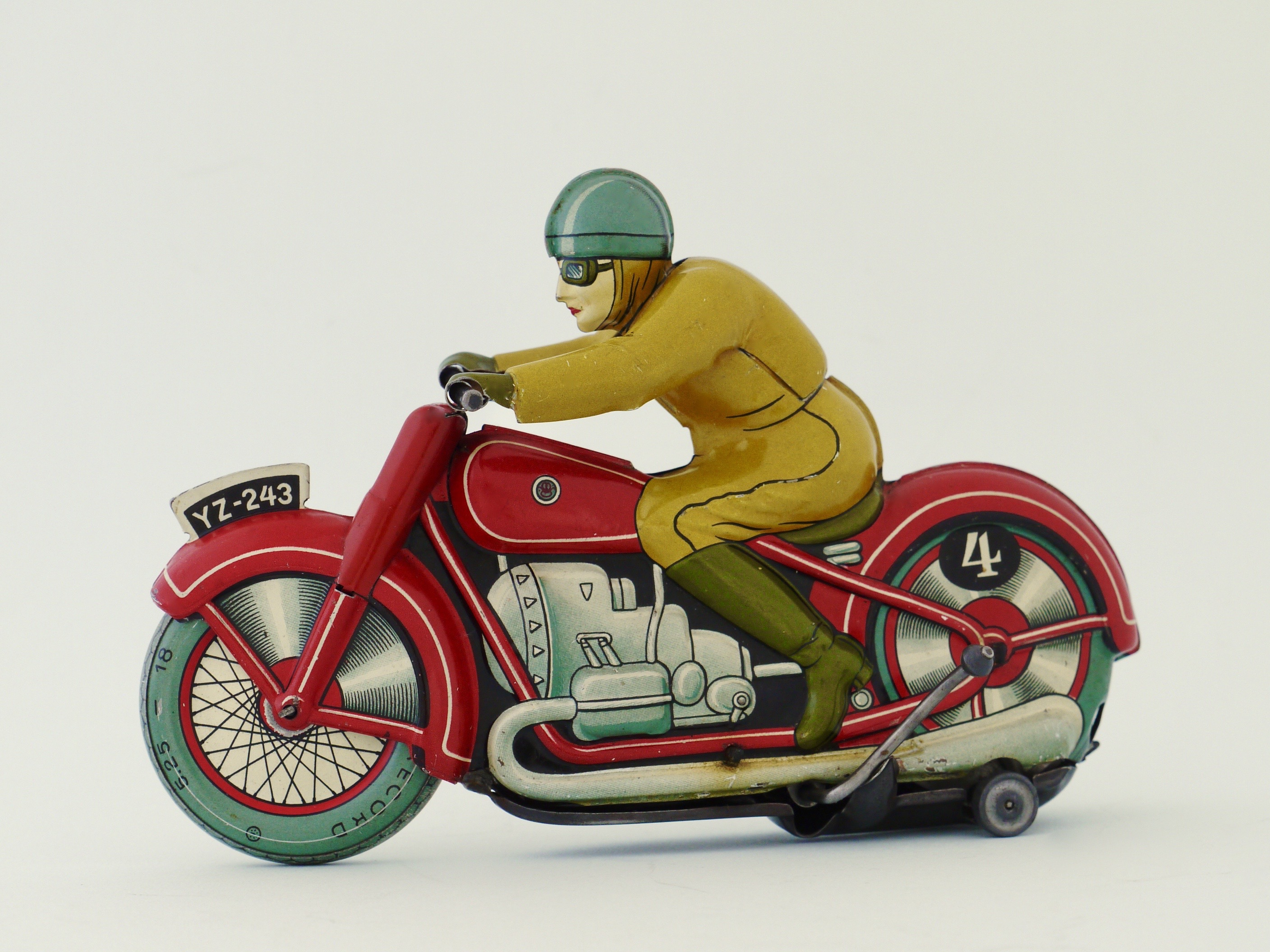 Technofix racer YZ-243, Germany 1936